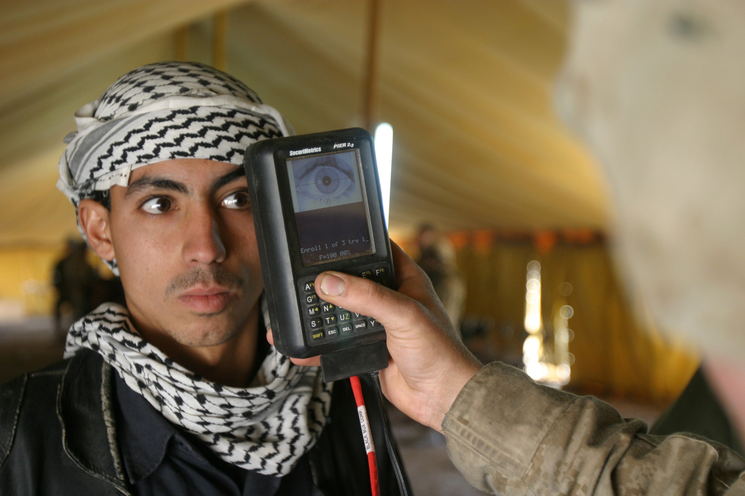 Marine Lance Cpl. Luis Molina scans an Iraqi citizen's retina at Brahma Park in Fallujah, Iraq, on Jan 25, 2005. U.S. Marines are utilizing a Biometric Analysis Tracking System to record and identify Iraqi civilians entering the battle torn city of Fallujah in an attempt to find and identify insurgent forces. The tracking system uses thumbprints, a photograph of the face, and a iris scan to establish positive identity. Molina is deployed with Marine Wing Support Squadron 373 in support of Operation Iraqi Freedom.